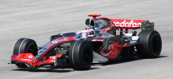 Fernando Alonso driving for McLaren at the 2007 Malaysian Grand Prix.